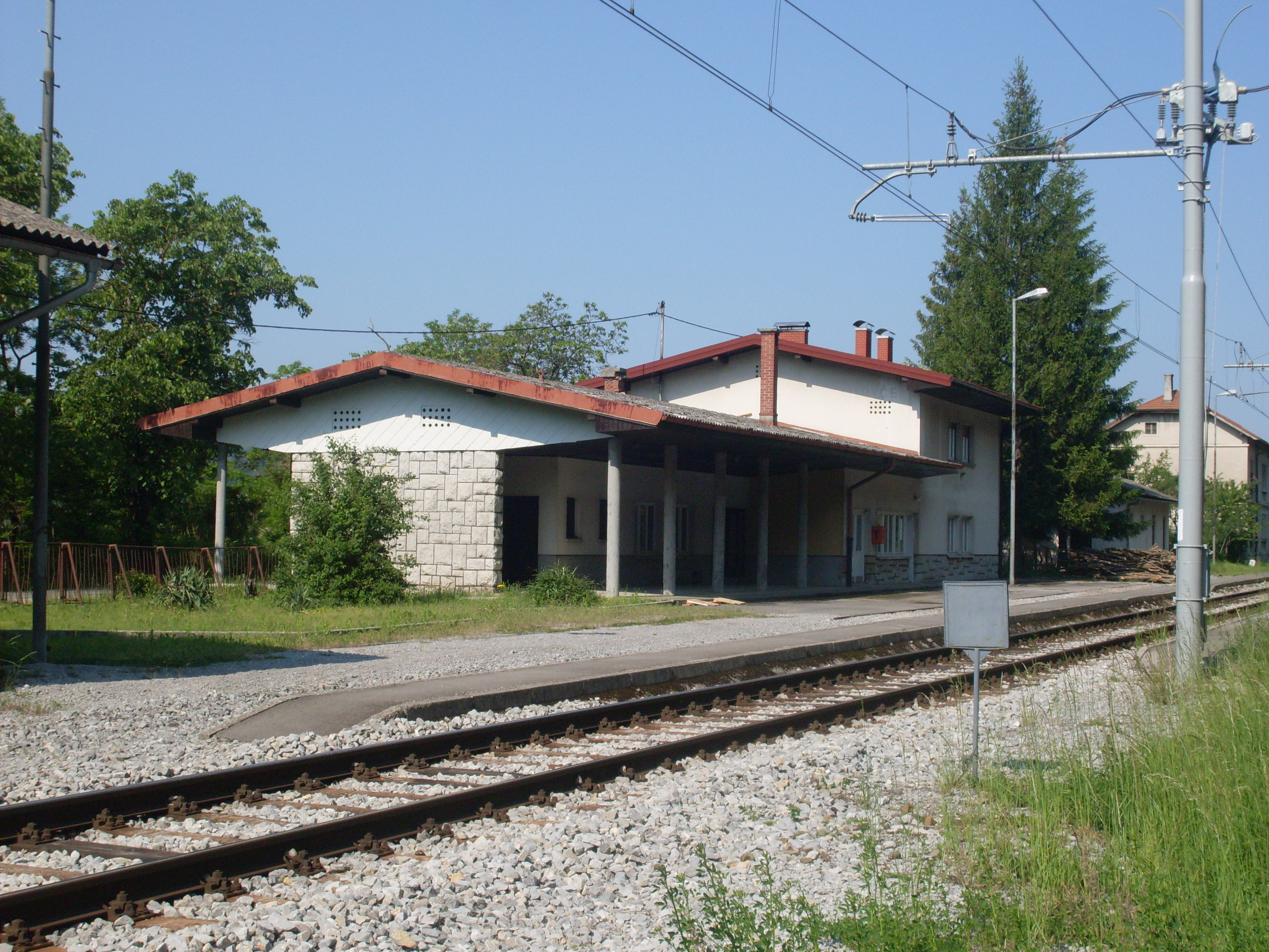 Railway halt in Kilovče, Slovenia